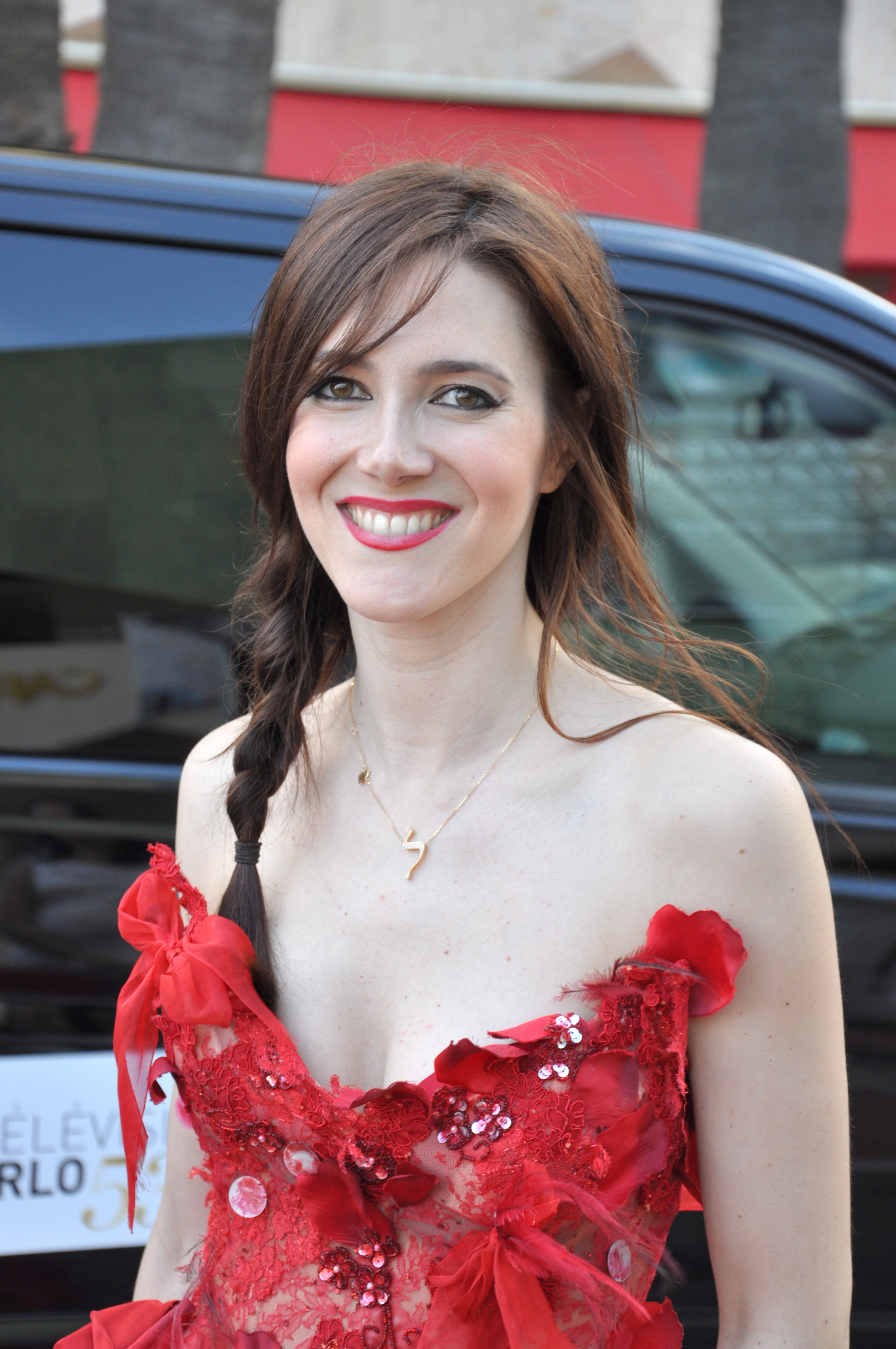 Sandra Lou at the 2013 Monte-Carlo Television Festival.